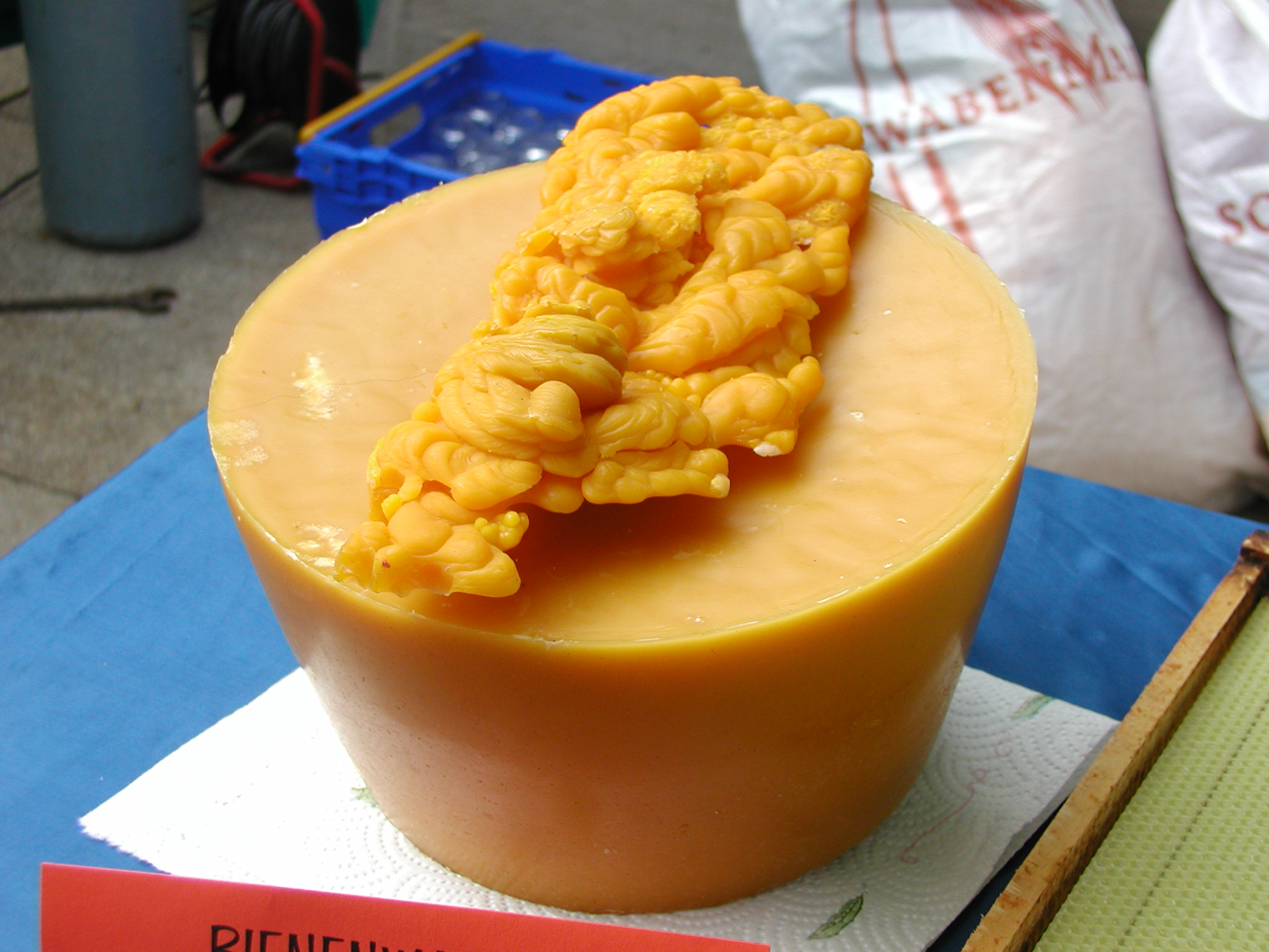 Description: beeswax